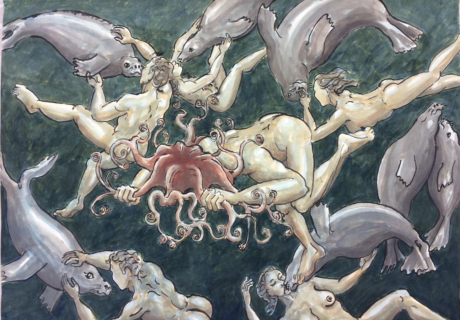 La Ronde (with seals) landscape-format with medusa-head, ink and watercolours on paper, 60,5 x 87,5 cm, 2015